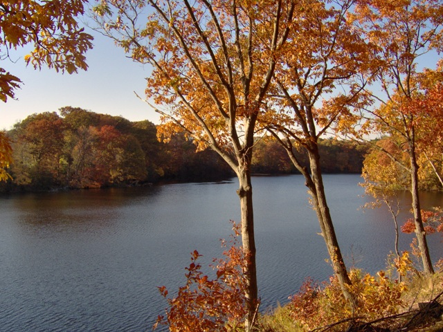 Lawrence Brook (Westons Mill Pond section) and Rutgers University on the opposite side